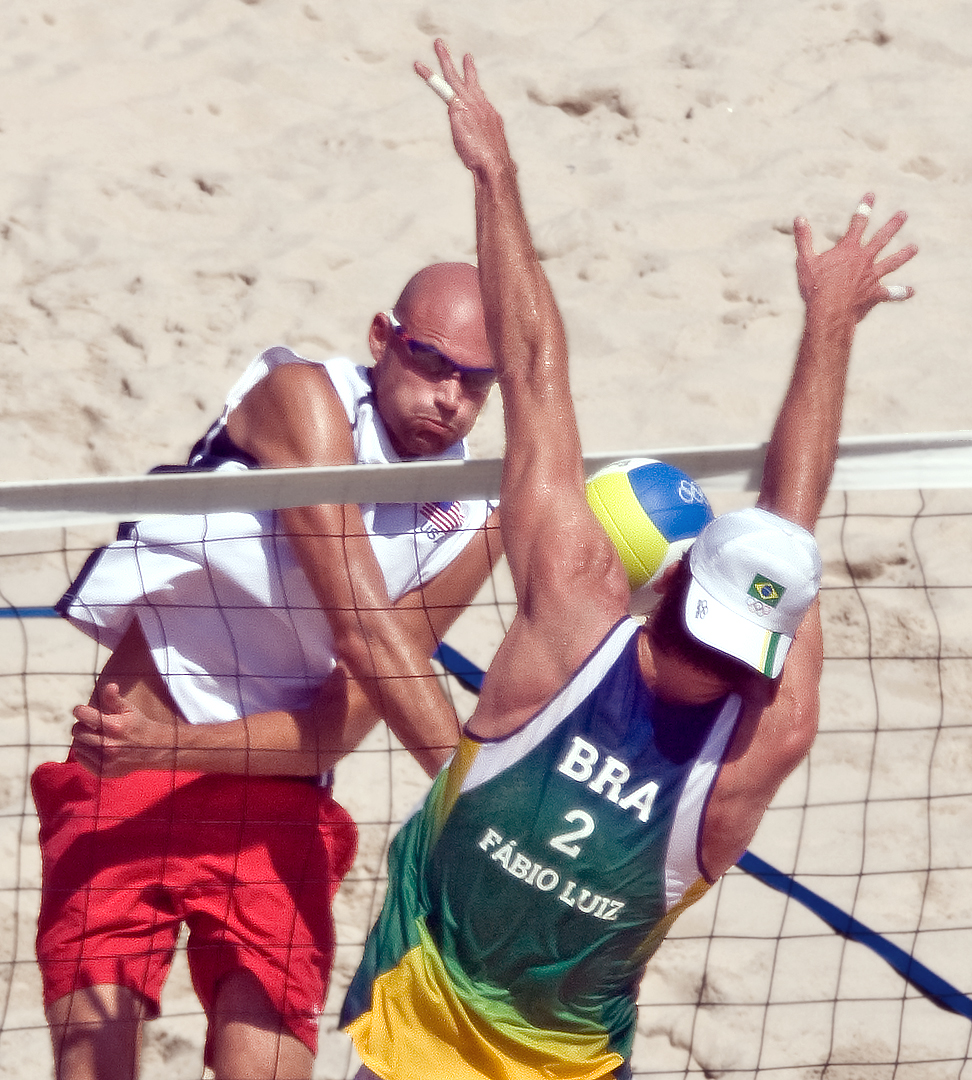 Beijing Olympics, Men's Beach volley, Final: Phil Dalhausser in white v. Fábio Luiz Magalhães of Brazil